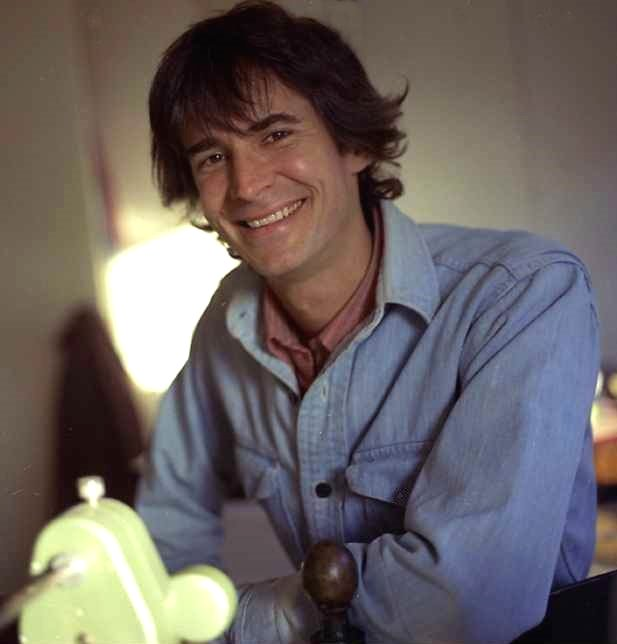 portrait of Anthony Perkins taken by Allan Warren in his house in Manhattan New York